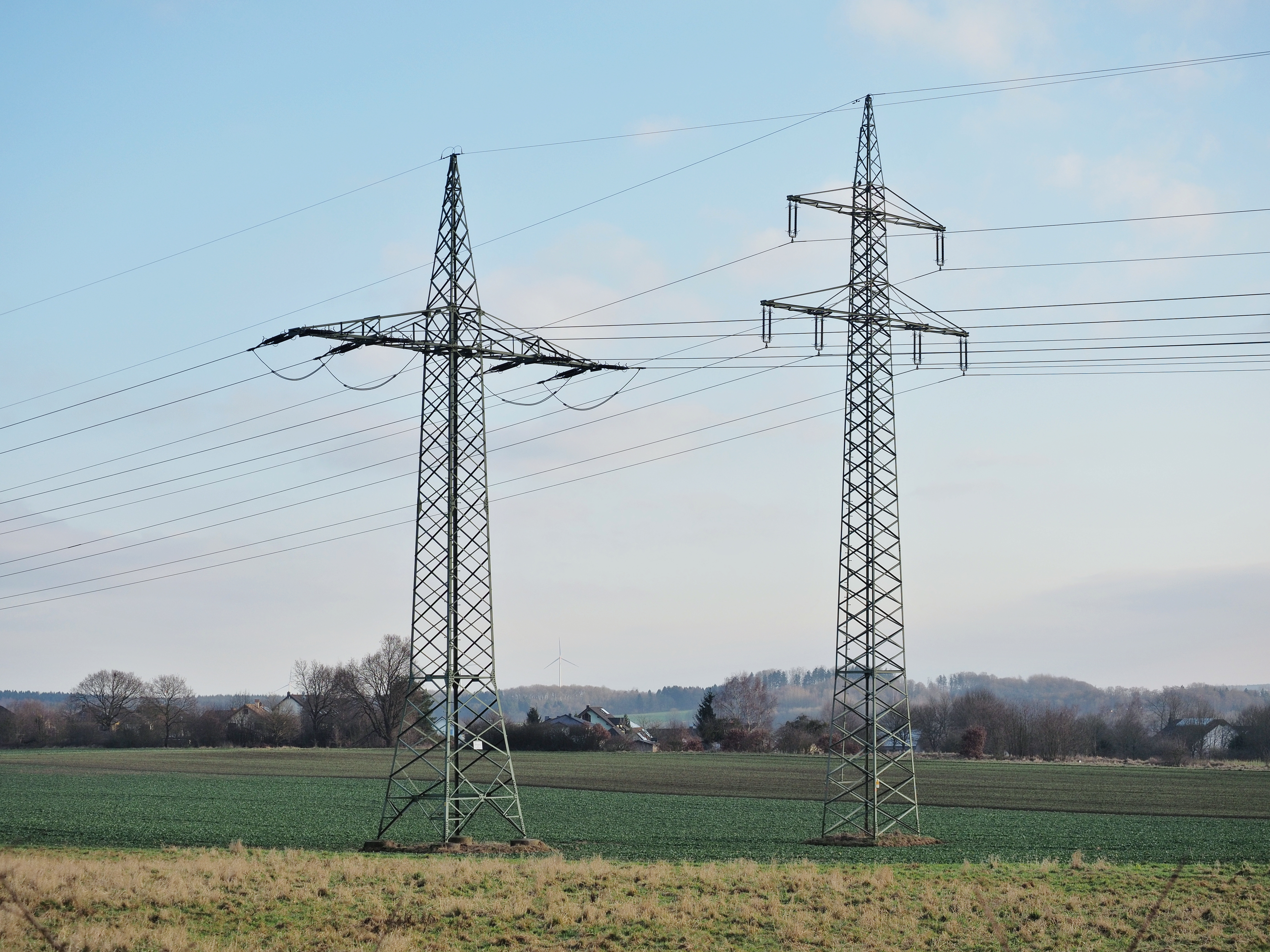 Comparison of anchor pylon (110 kV traction current) and suspension pylon (110 kV three-phase supply grid) near Girod, Germany.